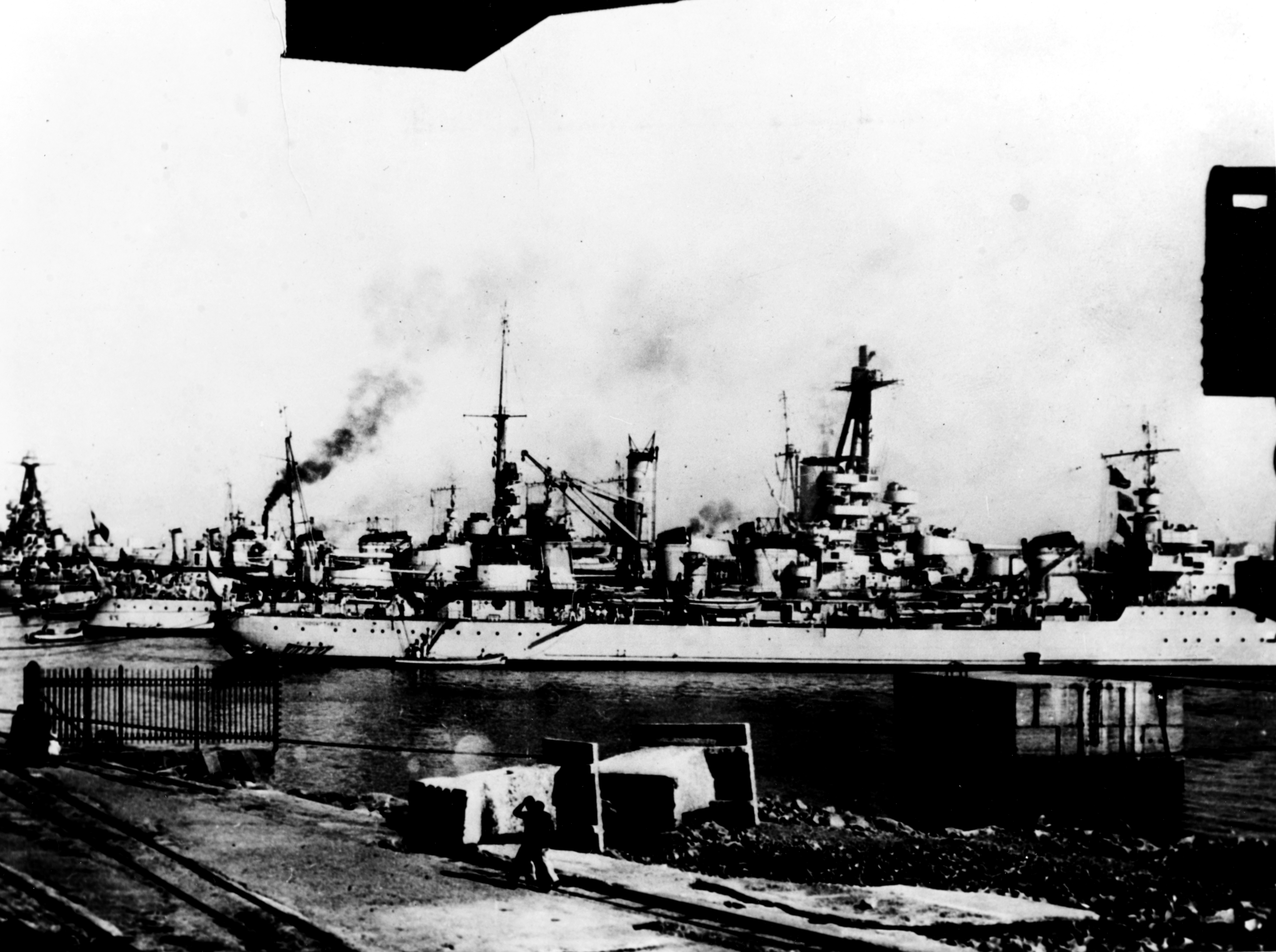 The French destroyer L'Indomptable at Casablanca, Morocco, circa 1938. A Chacal-class destroyer and a battleship (either Bretagne or Provence) are moored just beyond L'Indomptable, with other French warships further in the distance.